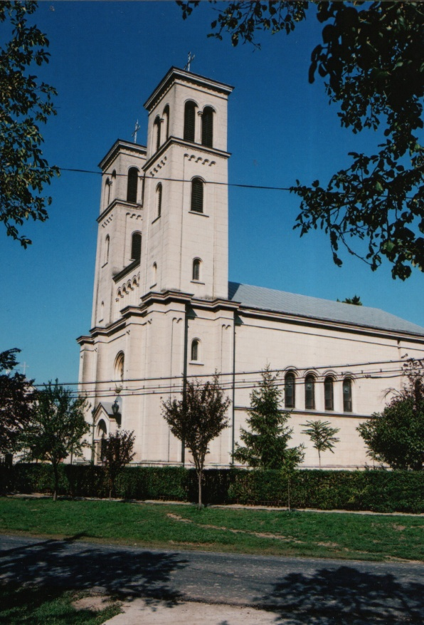 Kaplony (Capelni) Church